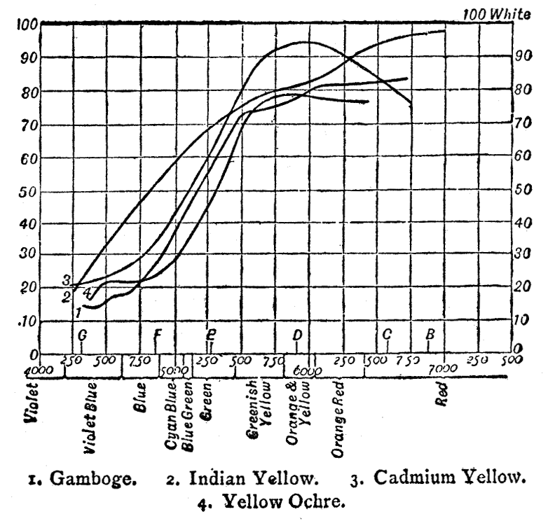 Reflectance spectra of yellow pigments, as percentage of a bright white, from Capt. W. de W. Abney's Color Measurement and Models 1891.